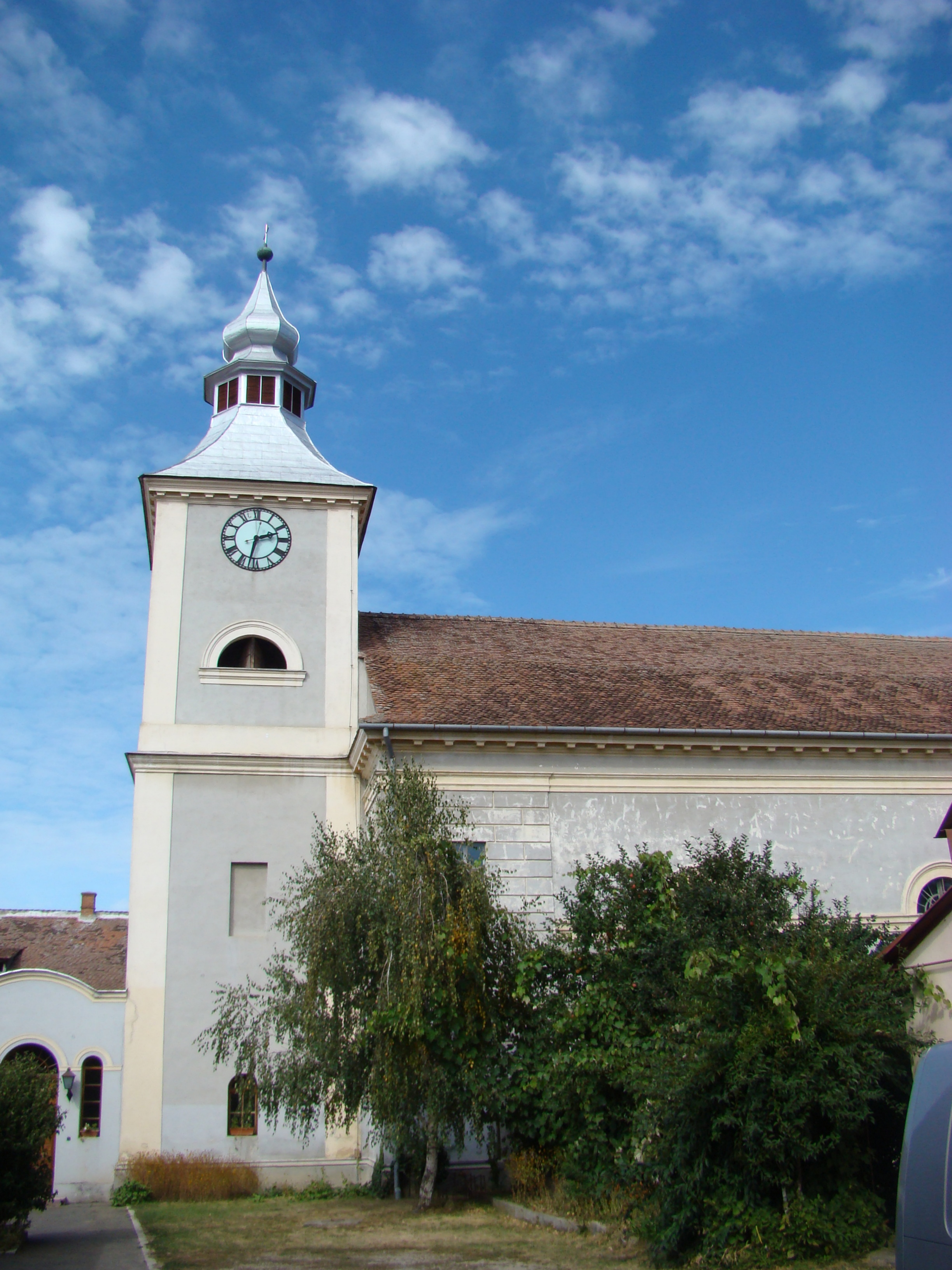 Lutheran church in Făgăraș, Brașov County, Romania